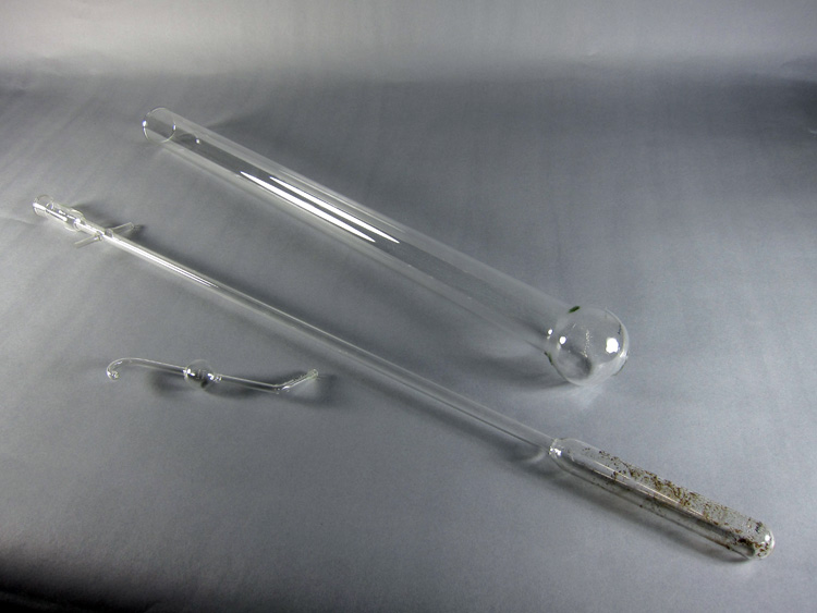 Viktor Meyer vapor density apparatus : 3 part outfit contains A) large glass tube (outer jacket) B) narrower tube with elongated bulb at bottom and two side arms near top (inner tube) and C) bent glass connecting tube for attachment of accessory apparatus